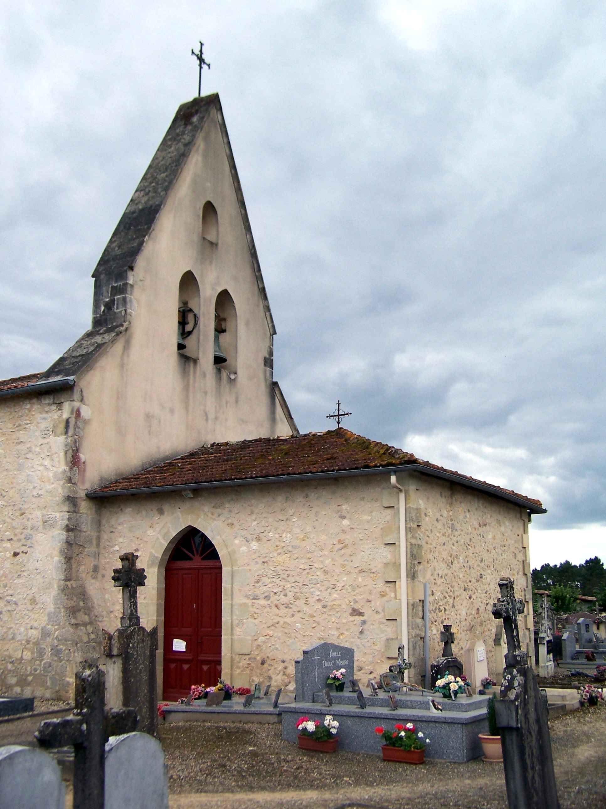 Church Saint-Pierre of Marions (Gironde, France)